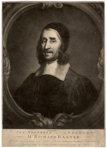 Richard Baxter (1615-1691)